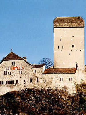 Description: The castle of Sargans (Canton of St. Gallen)